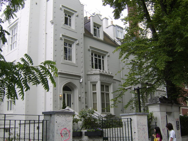 Abbey Road Studios, London NW8 The graffiti on the walls shows people's affections for the Beatles, who recorded almost every one of their albums and singles in this studio.